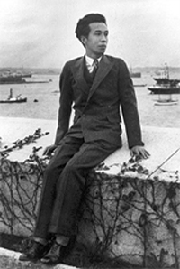 Jirō Osaragi (4 October 1897–30 April 1973)